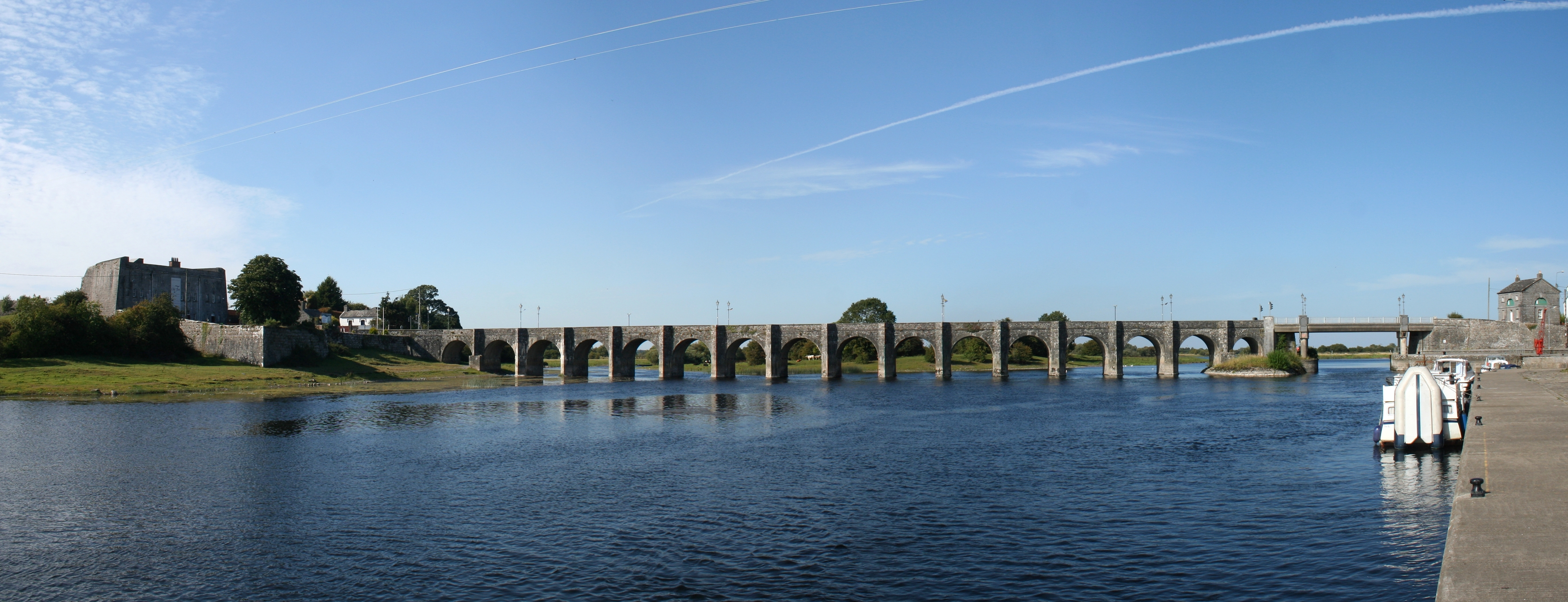 Shannonbridge - Ireland